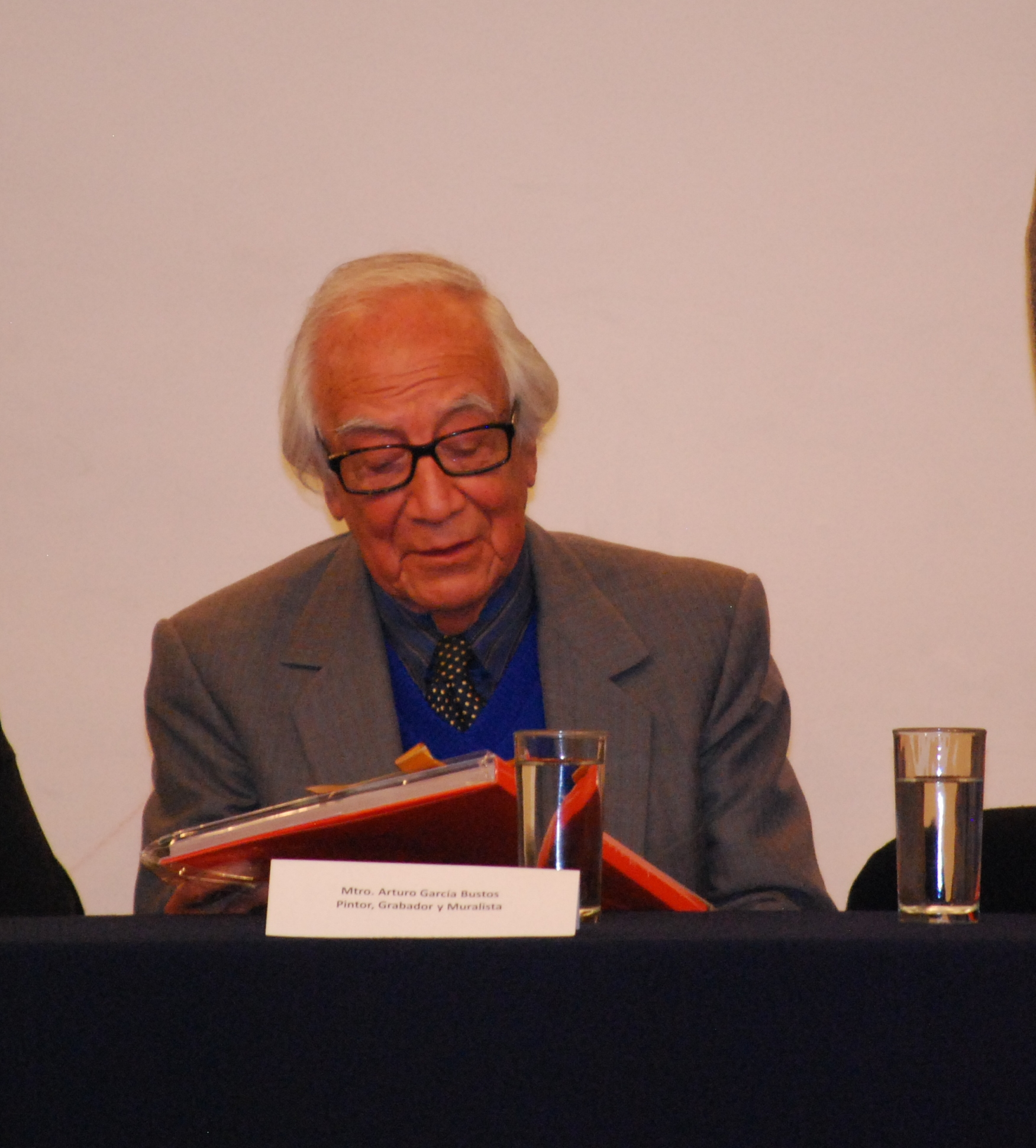 Arturo Garcia Bustos at the presentation of Tesoros del Registro Civil Salon de la Plastica Mexicana at the Palacio de Bellas Artes in Mexico City